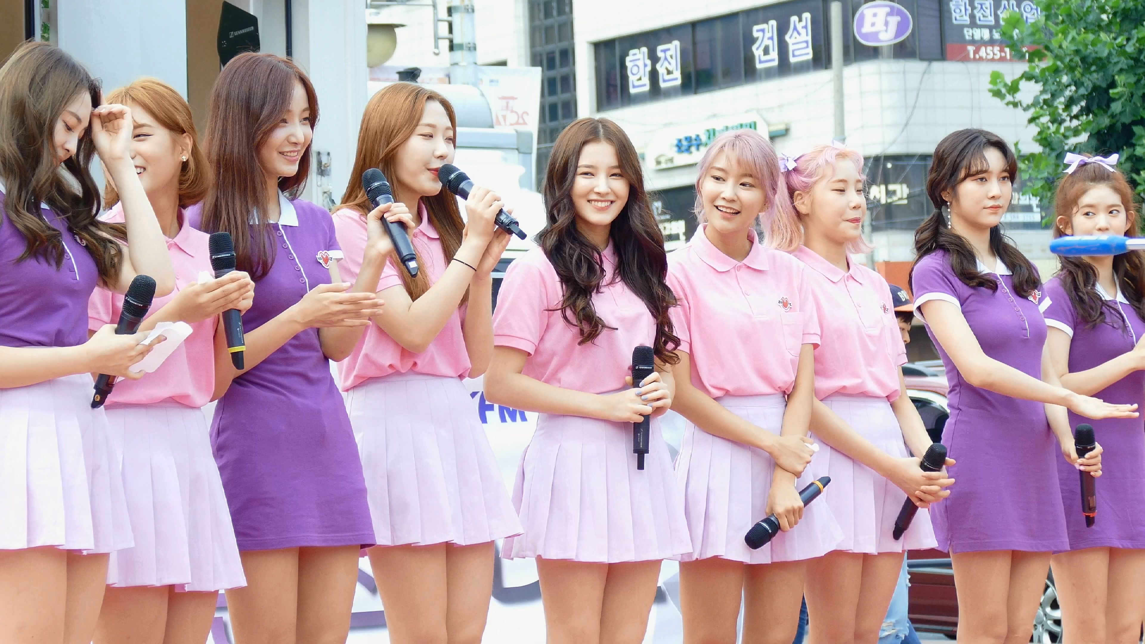 July 30, 2017: Momoland Introduction at the World Taekwondo Hanmadang Indoor Gym, Anyang City